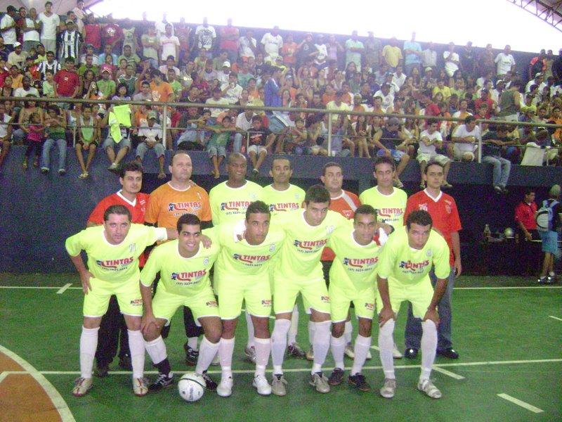 Gallery of rivals of Vilense.